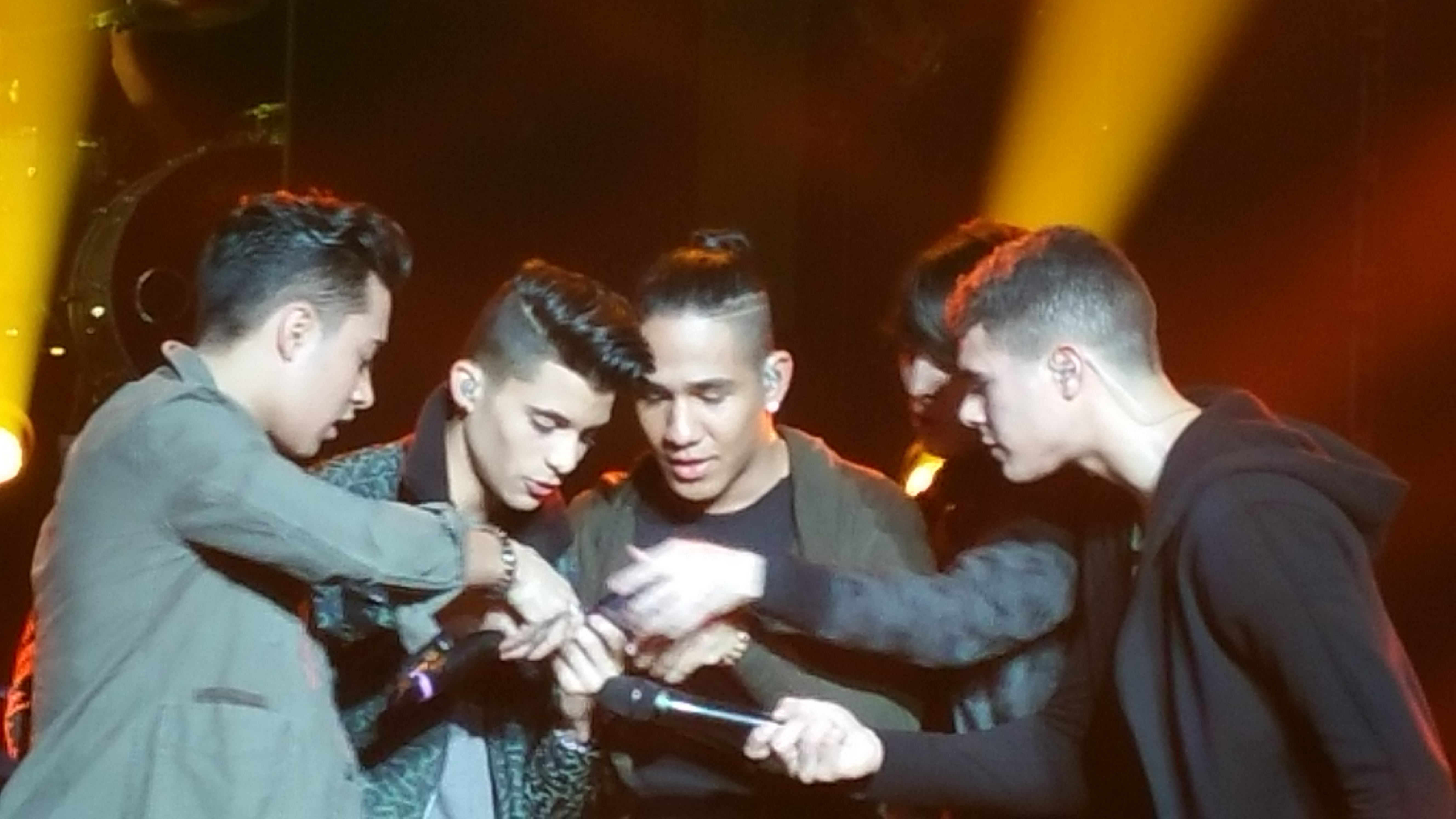 CNCO boy band (First winners of Univision music reality show La Banda), debut solo concert Jan. 30, 2016, at the Fillmore Miami Beach, Jackie Gleason Theater.